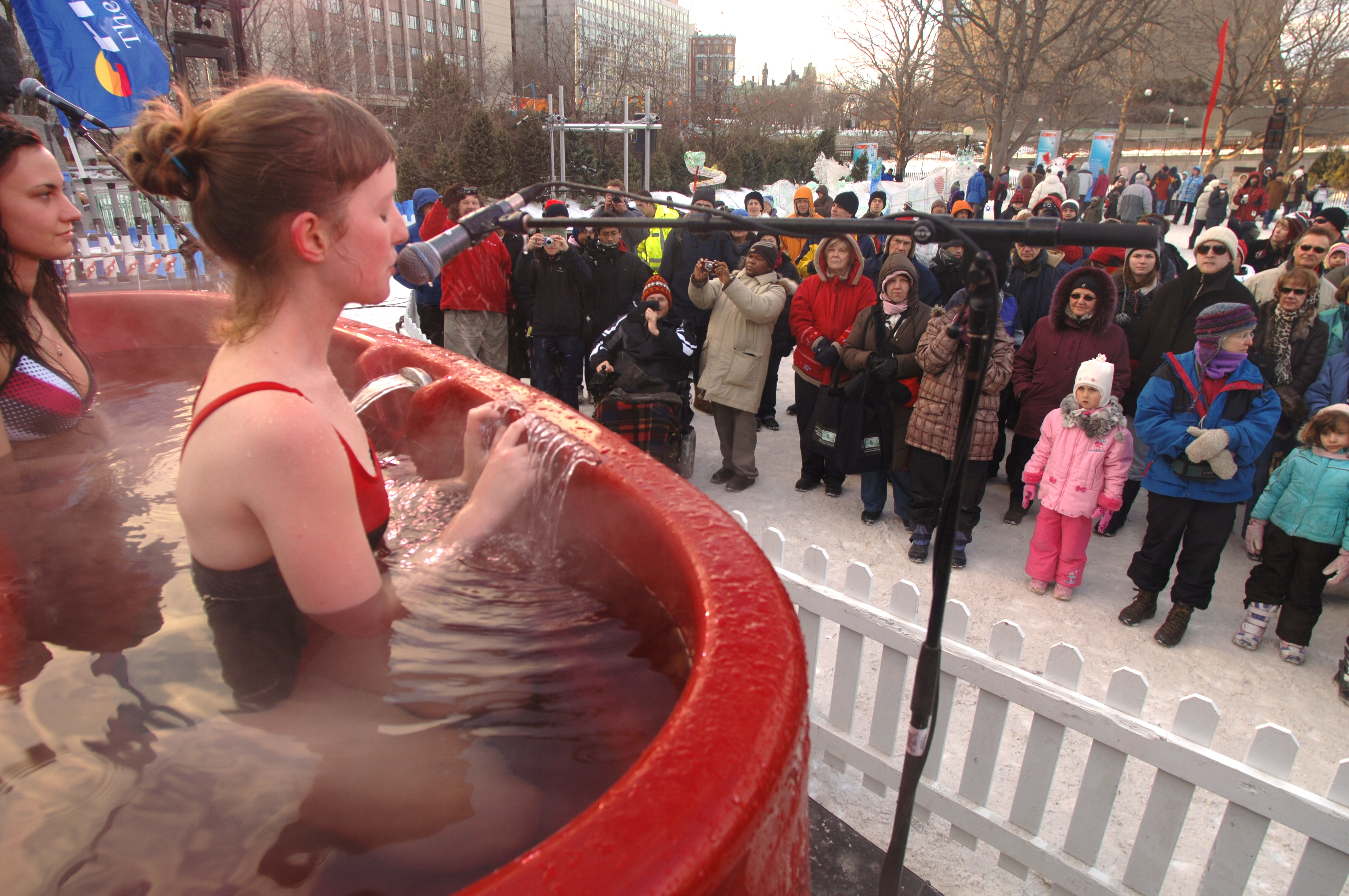 H2Orchestra performing for the National Capital Commission on Balnaphone (hydraulophone built into a SpaBerry) at Winterlude 2010